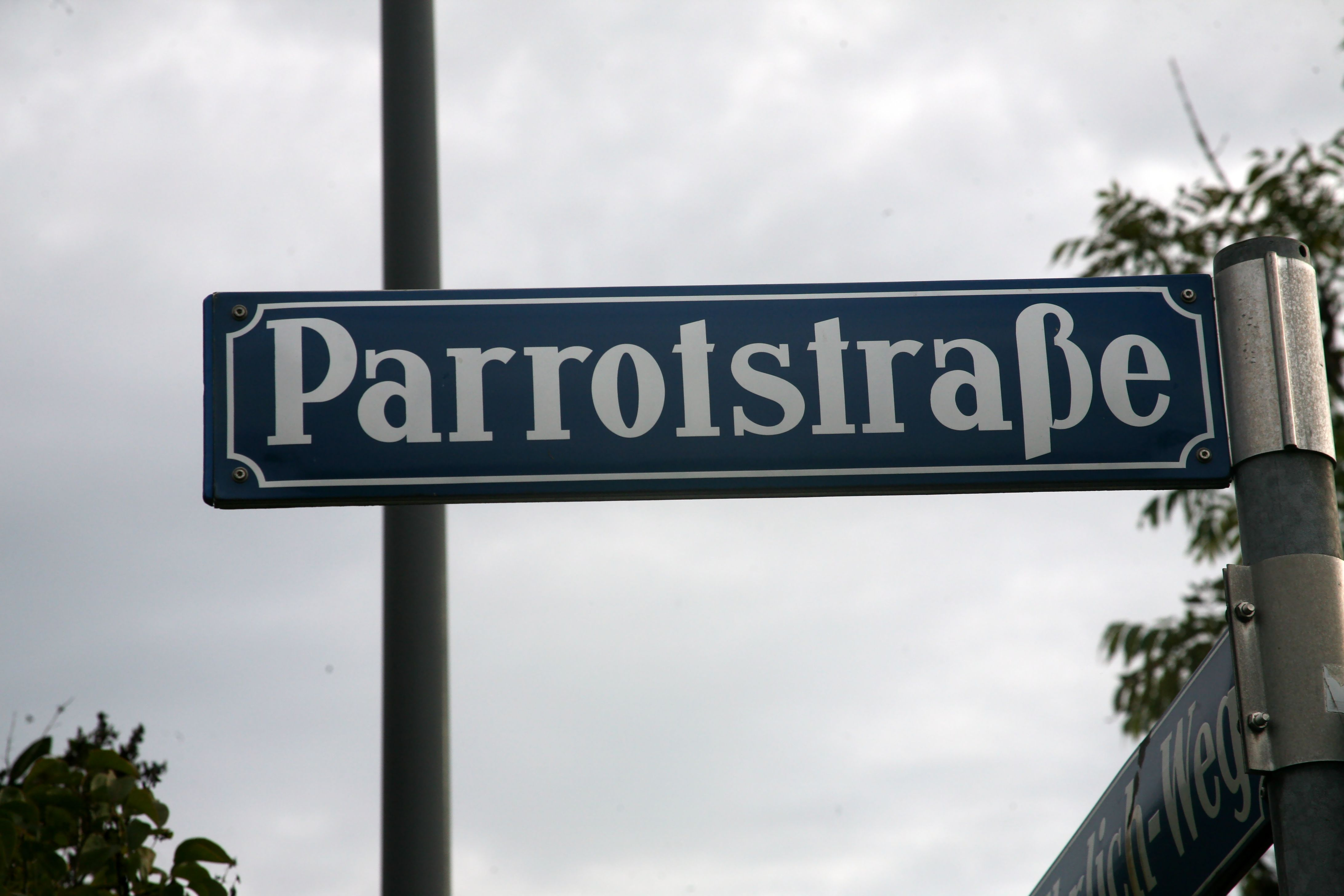 Sign Parrot Street in Munich/Allach in honor to the ornithologist Carl Parrot